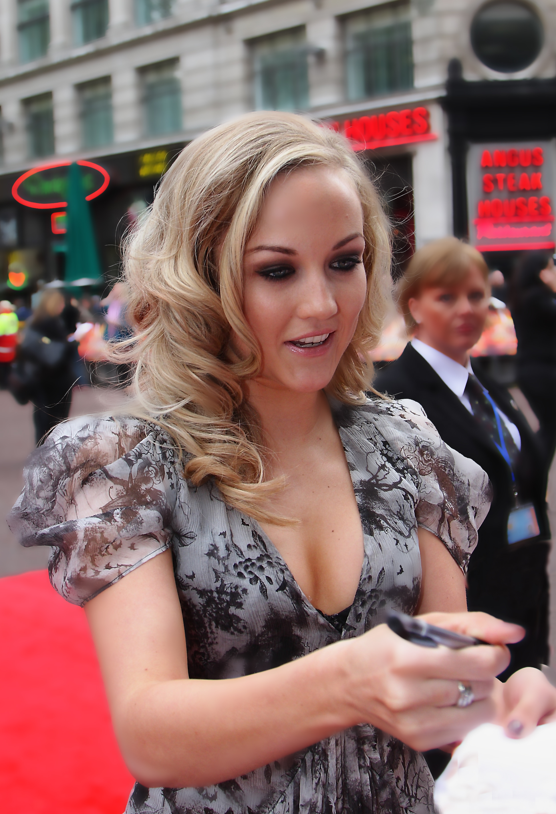 Nichola Burley at the premiere of StreetDance 3D